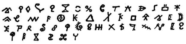 The Woleaian syllabary as written by Egilimar in 1913. (Letters not identified.)